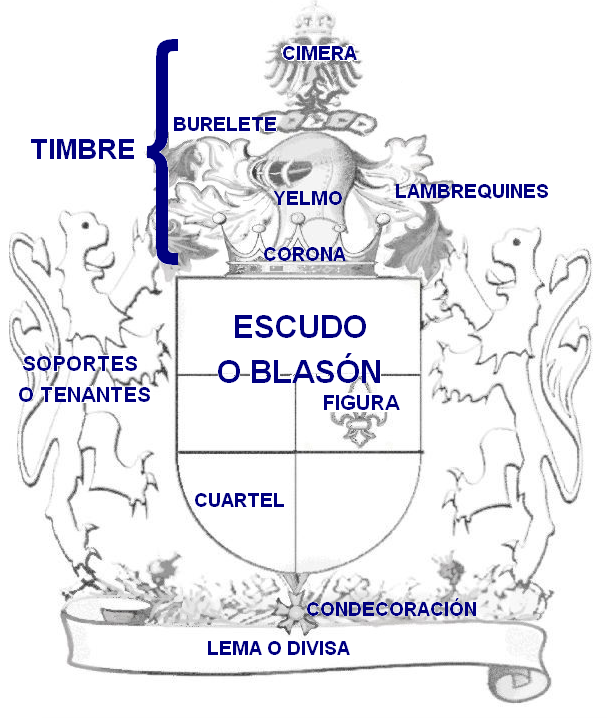 Translated from Image:Coat-elements.png (In Spanish)